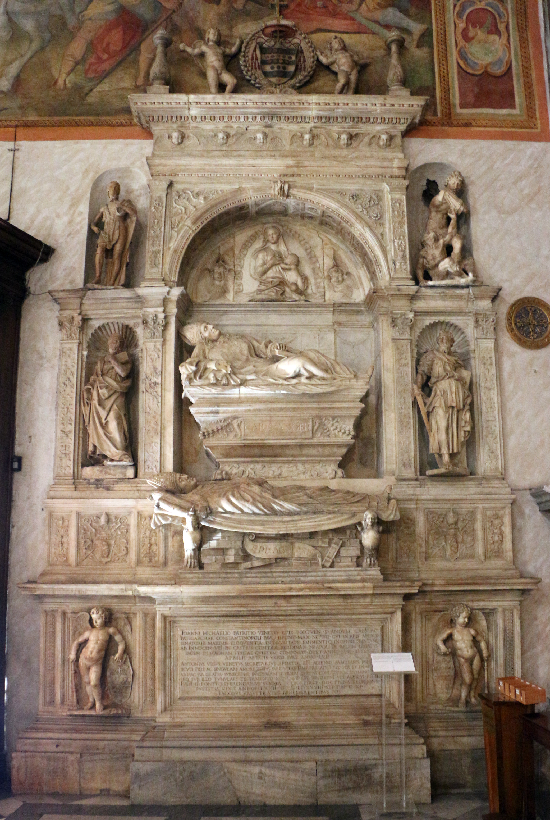 Monument to Giovanni Michiel and Antonio Orso by Jacopo Sansovino